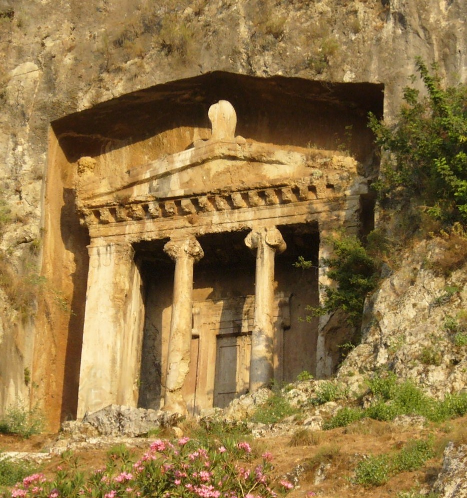 Lycian temple-style tomb in Fethiye.